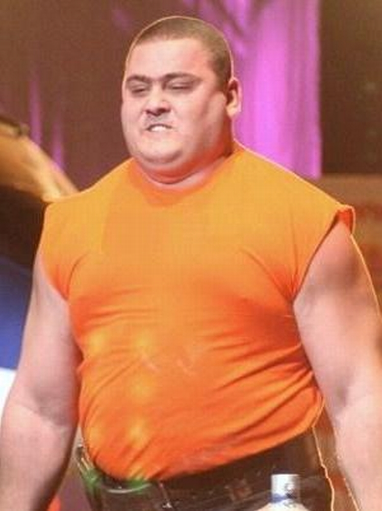 Oleksandr Lashin (a strength athlete from Ukraine).